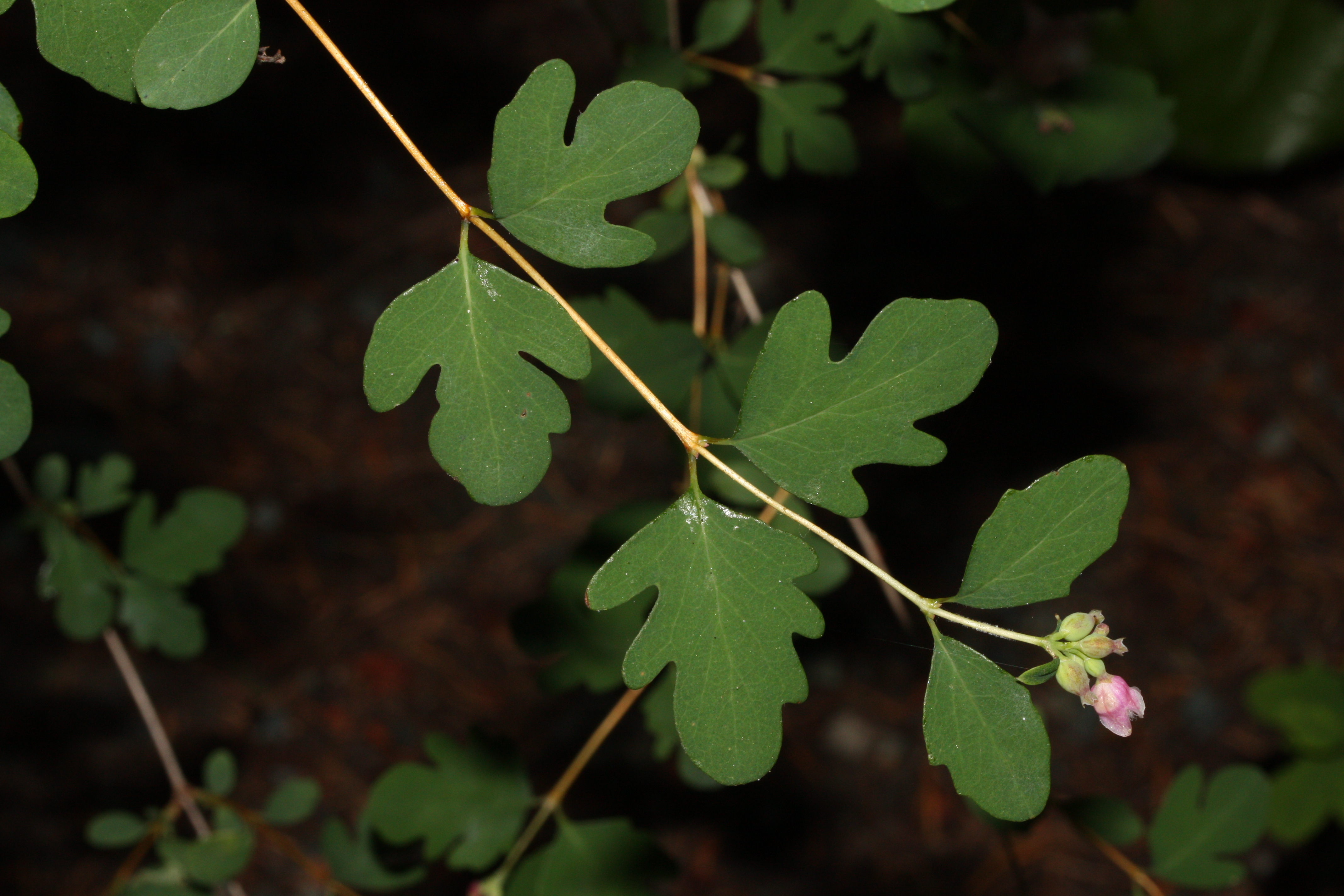 Common Snowberry